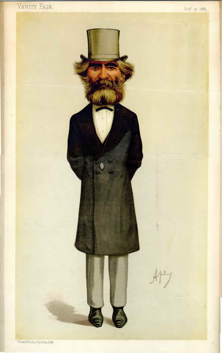 John Passmore Edwards by Carlo Pellegrini